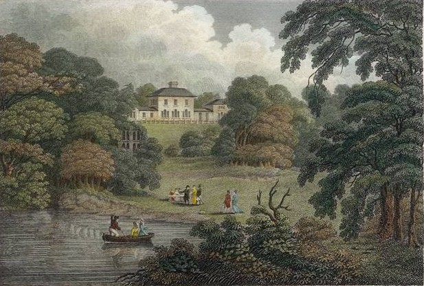 The Leasowes park and house in 1811